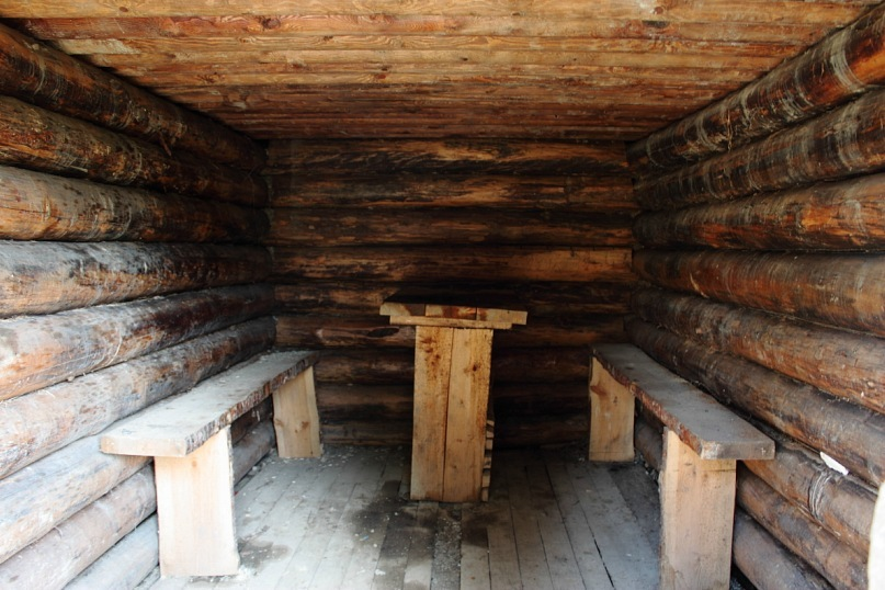 Блиндаж